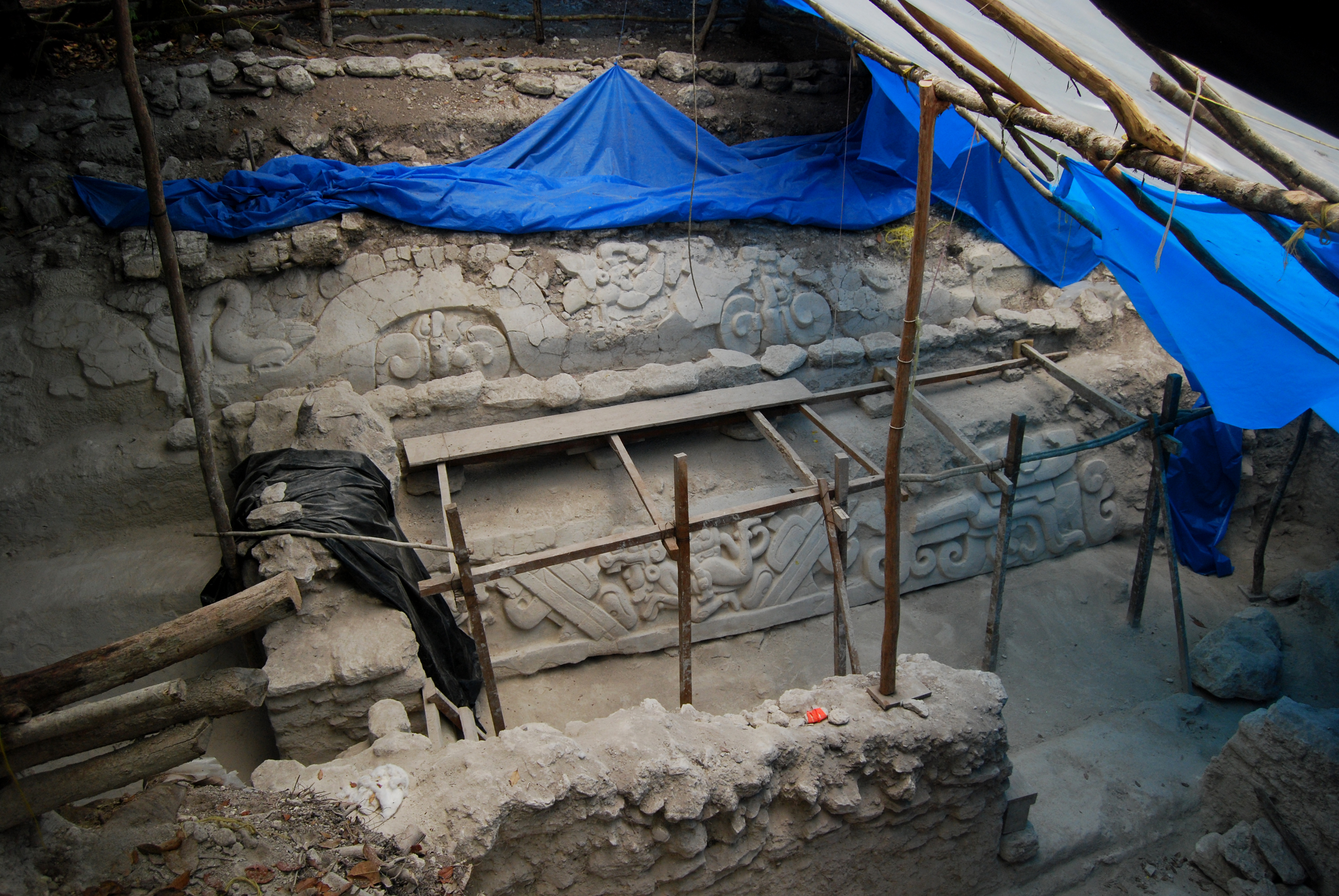 Archaeological excavation at the Preclassic Maya site of El Mirador, in Petén, Guatemala.